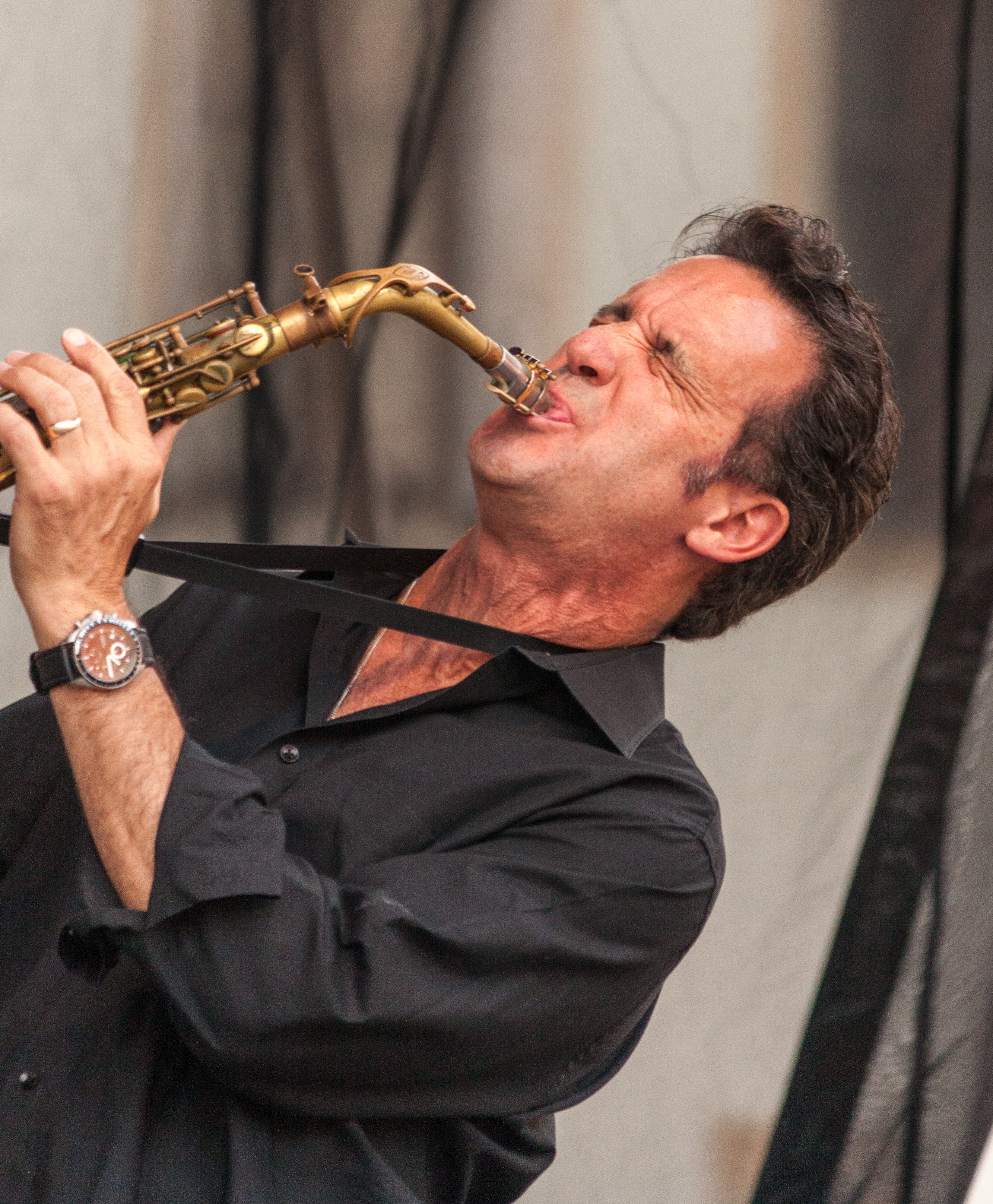 Jeff Lorber feat. Eric Marienthal - Jazz na Starówce festival 2012-08-04, Warsaw, Poland